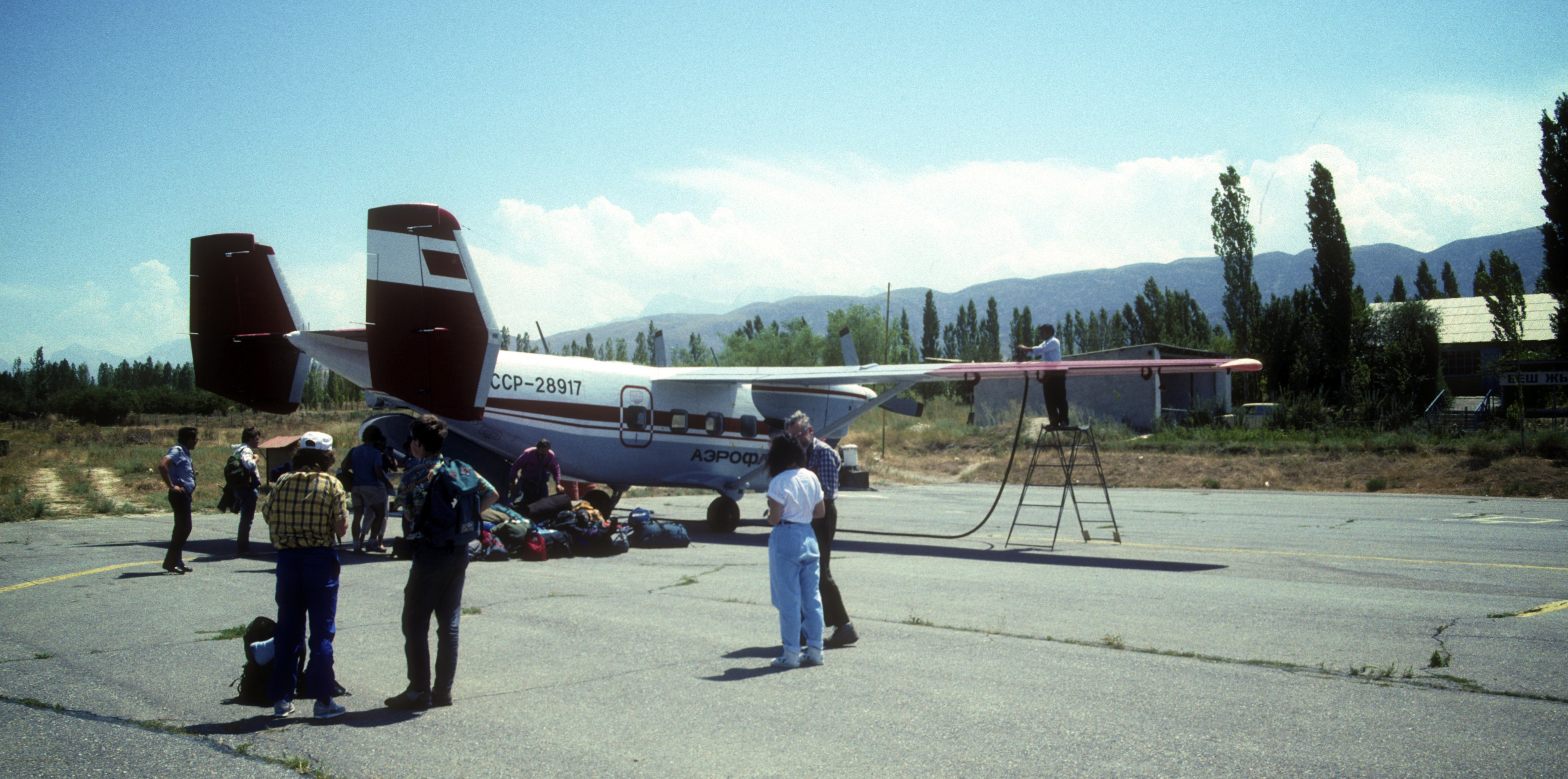 An Antonov An-28 at Isfana Airport in the summer of 1990.